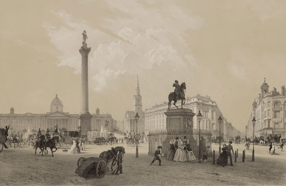 PLACE TRAFALGAR. LONDRES, TRAFALGAR SQUARE. LONDON.